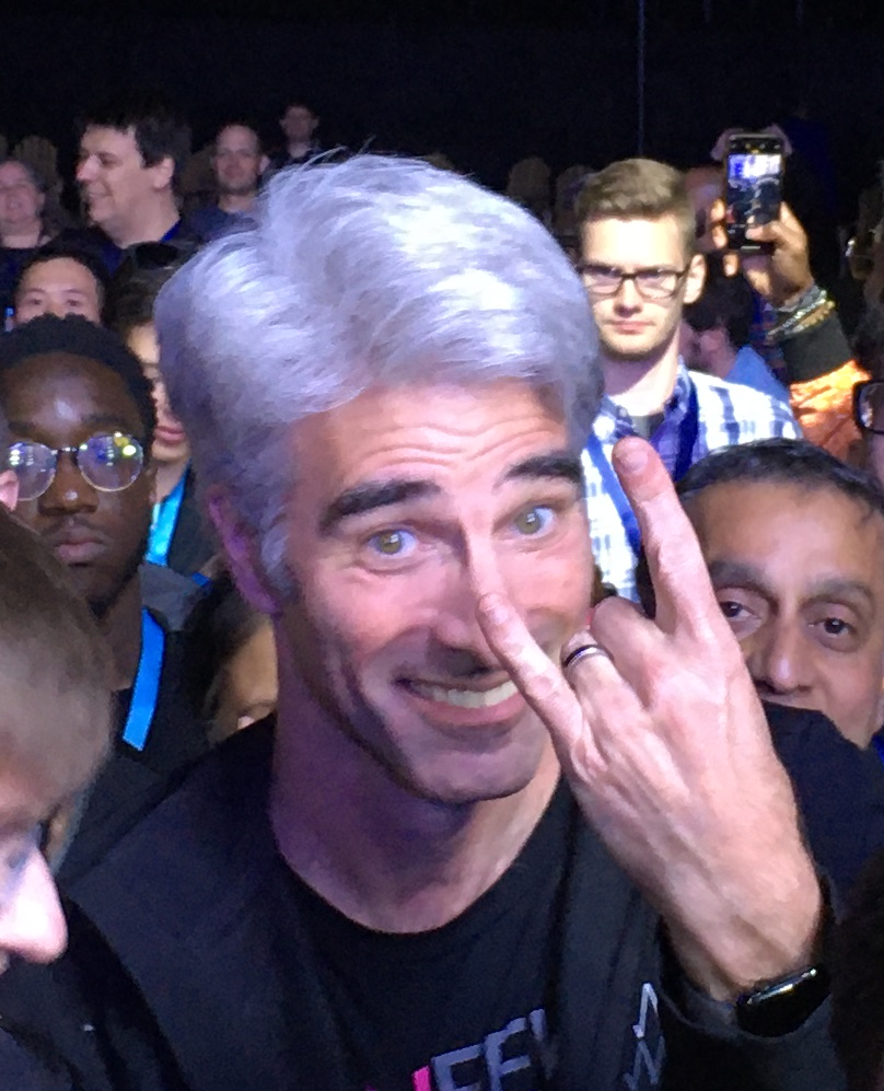 Craig Federighi, Apple SVP of Software Engineering, at Apple WWDC 2019 (conference)